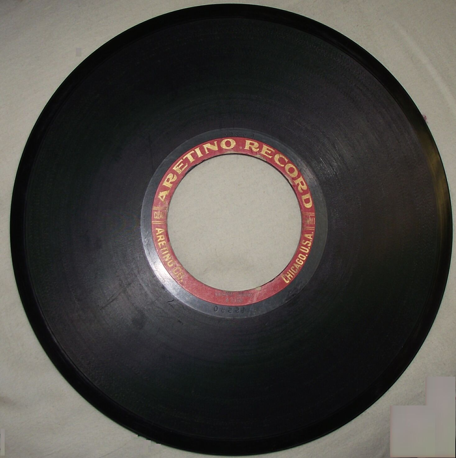 Disc from my collection. Will be included in planned article of Aretino Records. This disc was pressed by Leeds & Catlin, and shows the matrix number and Imperial catalog number in mirror, as was L&C's modus operandi. Performance is by a studio band performing a selection from Ernani by Giuseppe Verdi. Recording date is approximately 1908.